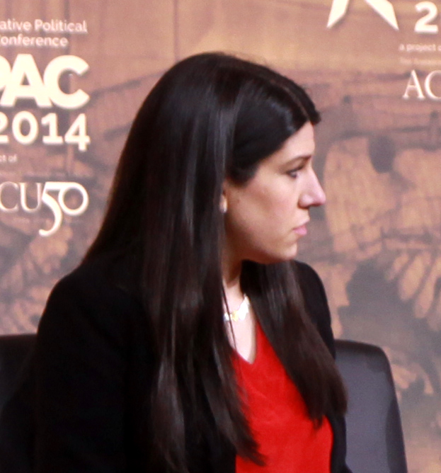 Cleta Mitchell, Eliana Johnson, Christine O'Donnell and Hans von Spakovsky speaking at the 2014 Conservative Political Action Conference (CPAC) in National Harbor, Maryland.